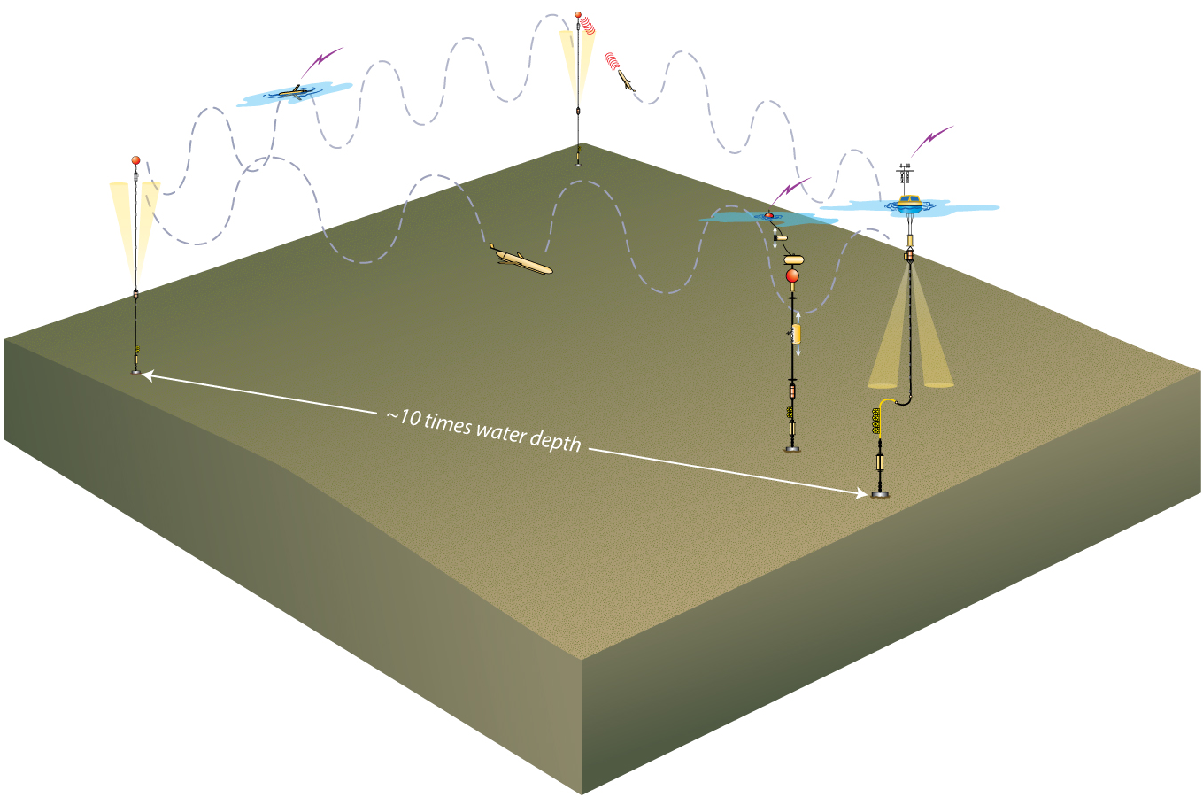 Conceptual Design of the Global Arrays. Credit: Woods Hole Oceanographic Institution. Disclaimer: mooring site arrangements are not yet finalized, all data are subject to revision without notice.